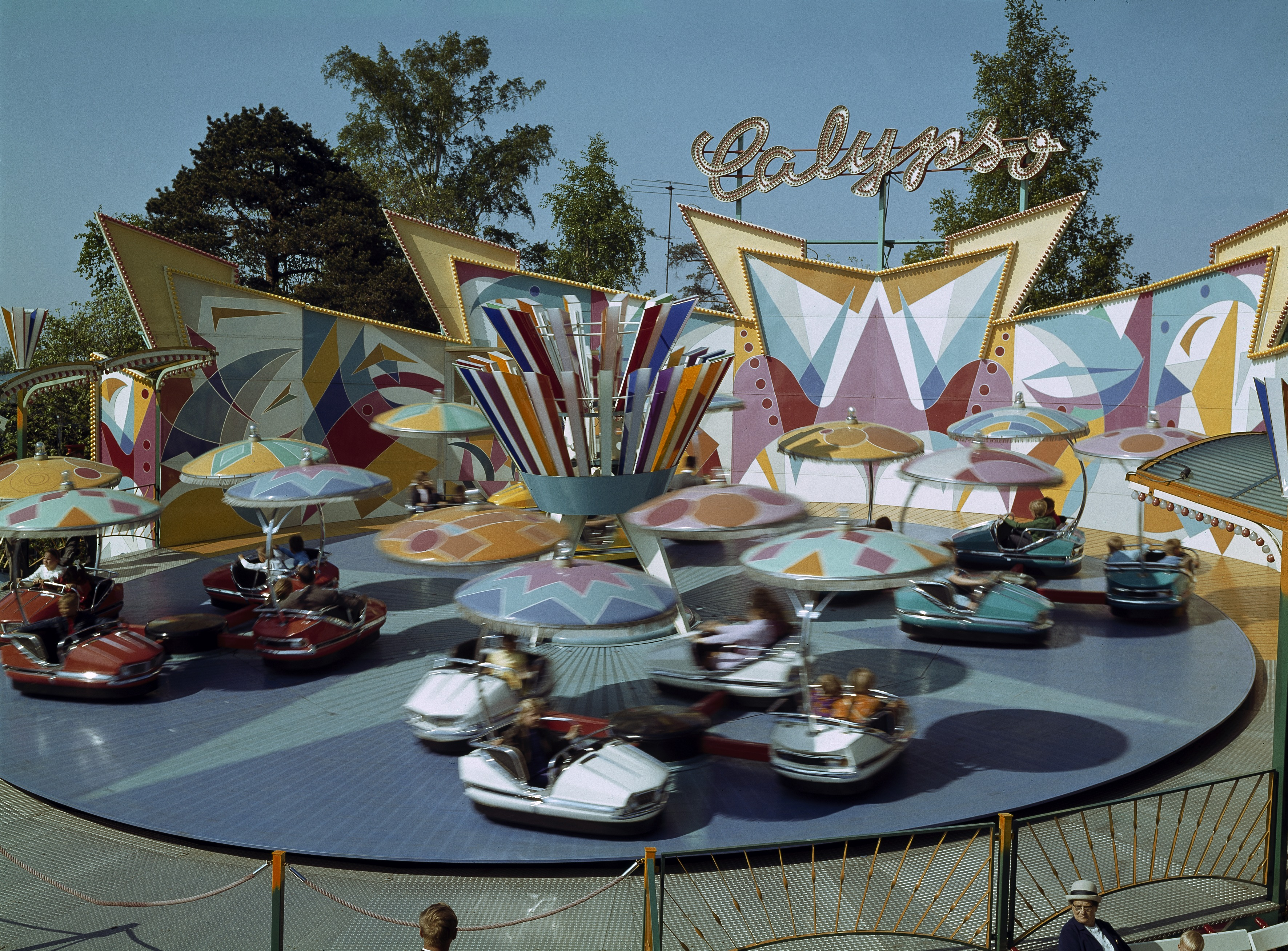 The since-demolished Calypso amusement ride at Linnanmäki amusement park in Helsinki, Finland.